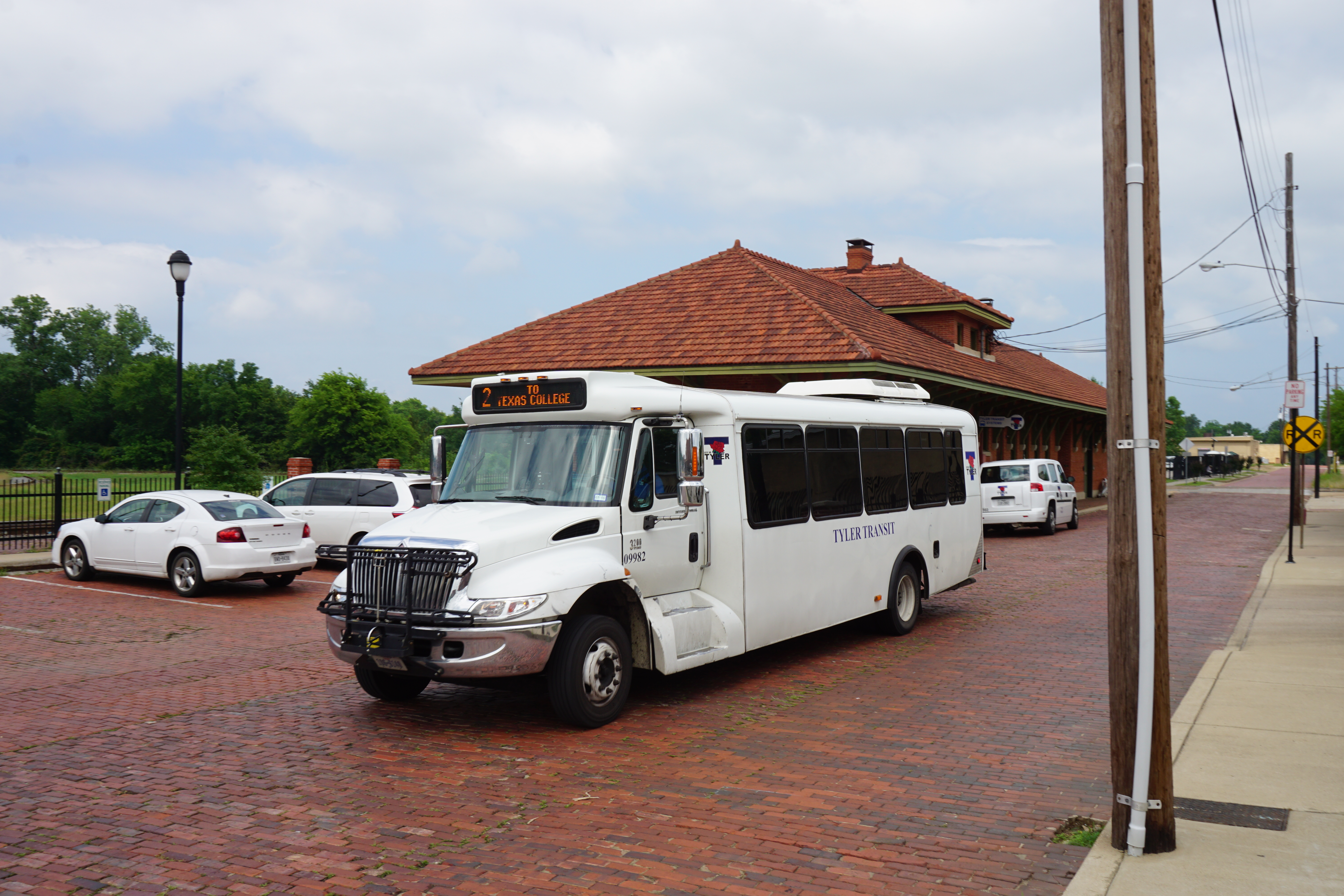 A Tyler Transit bus in Tyler, Texas (United States).